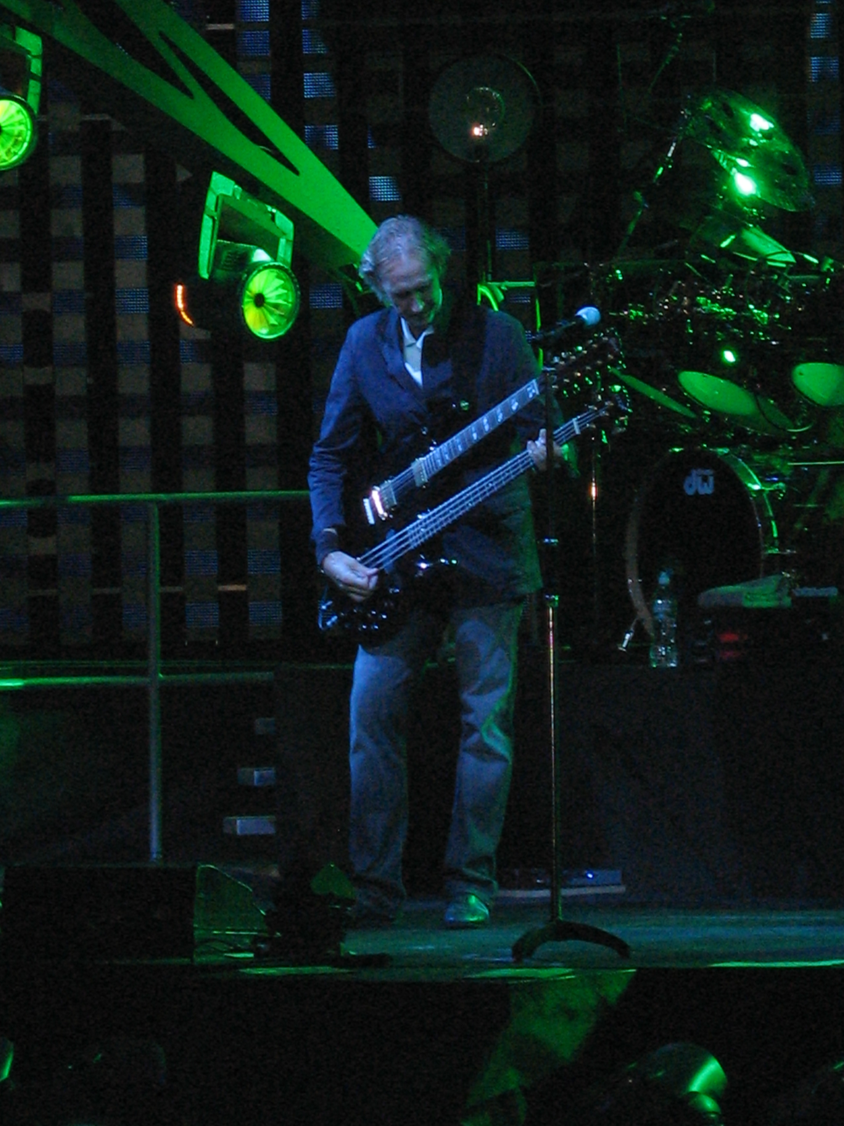 Mike Rutherford performing "Ripples" with Genesis in concert at the Verizon Center, Washington, D.C., USA.